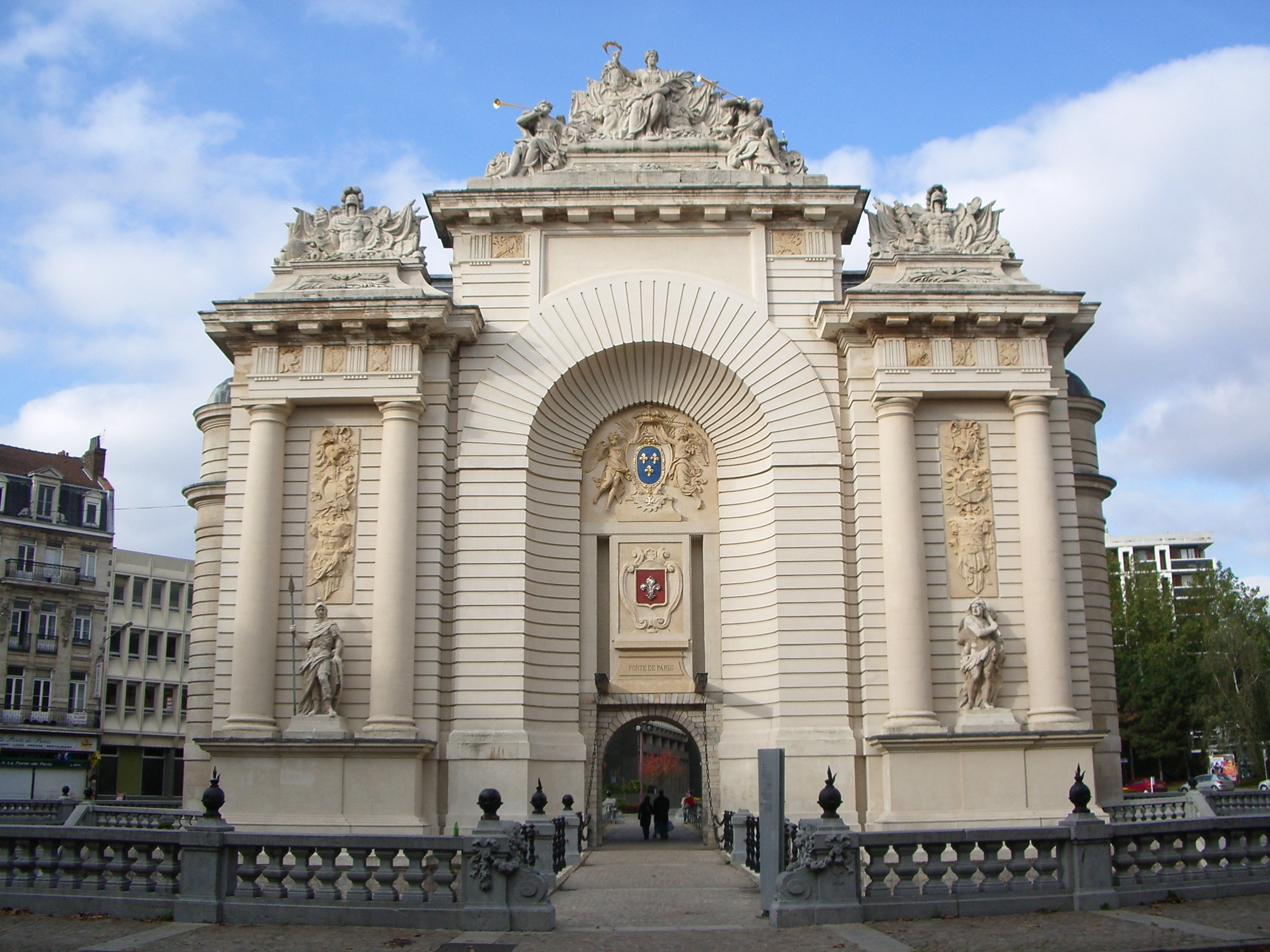 Porte de Paris in Lille (France – Nord department)